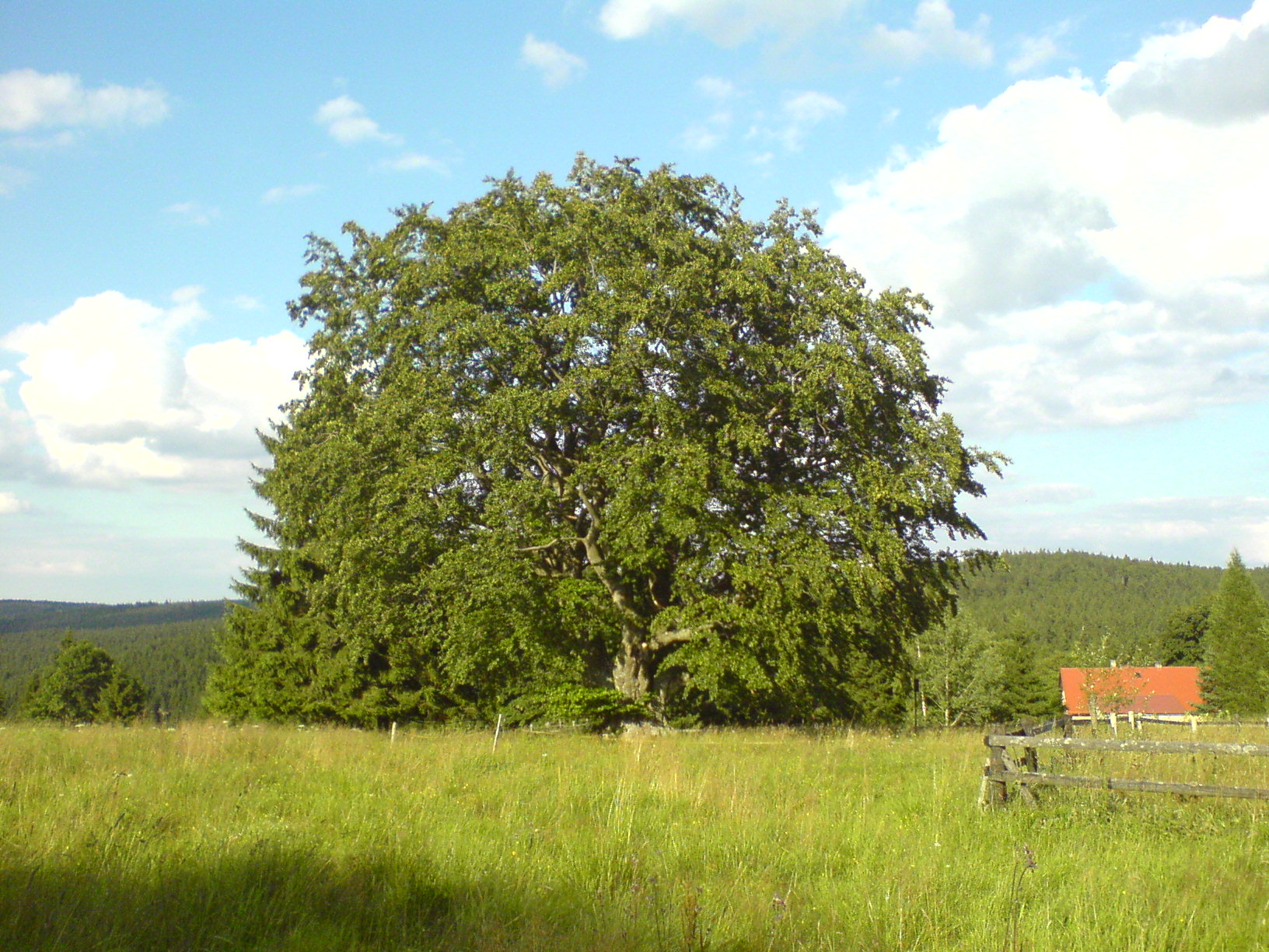 A protected beech tree near hamlet of Lazy, Lázně Kynžcart municipality, Cheb District, Czech Republic.